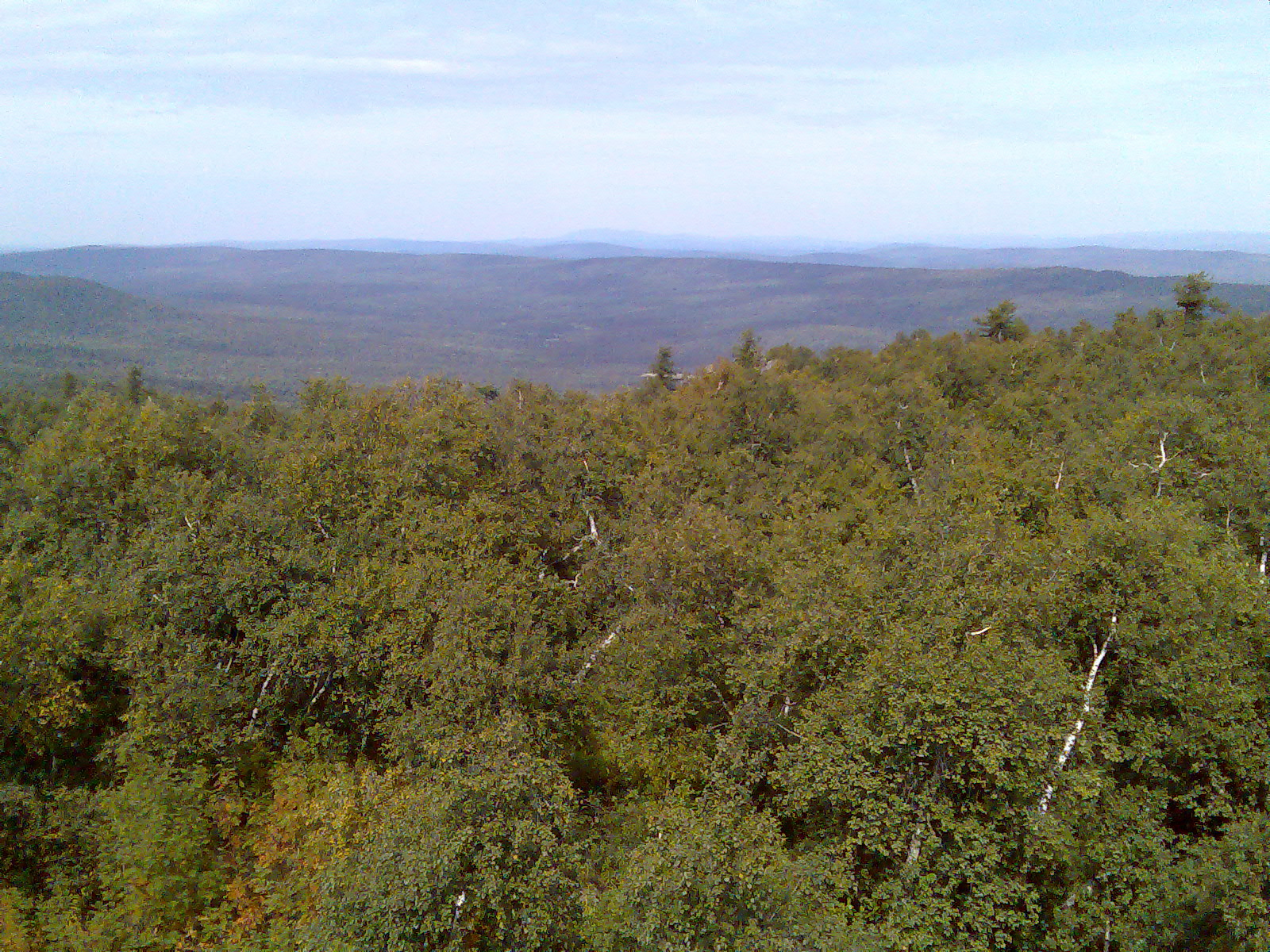 View from the mountains to the north Masim, Bashkortostan, Russia. (Вид с масимовских скал на север)